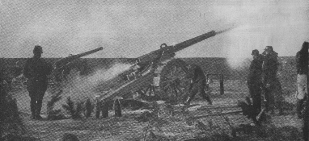 Photograph of French Canon de 155 long modèle 1877 in action, circa 1914 - early 1915. New York Times caption reads : "Remarkable photograph of a French heavy gun in action in a battle near Lens, France."